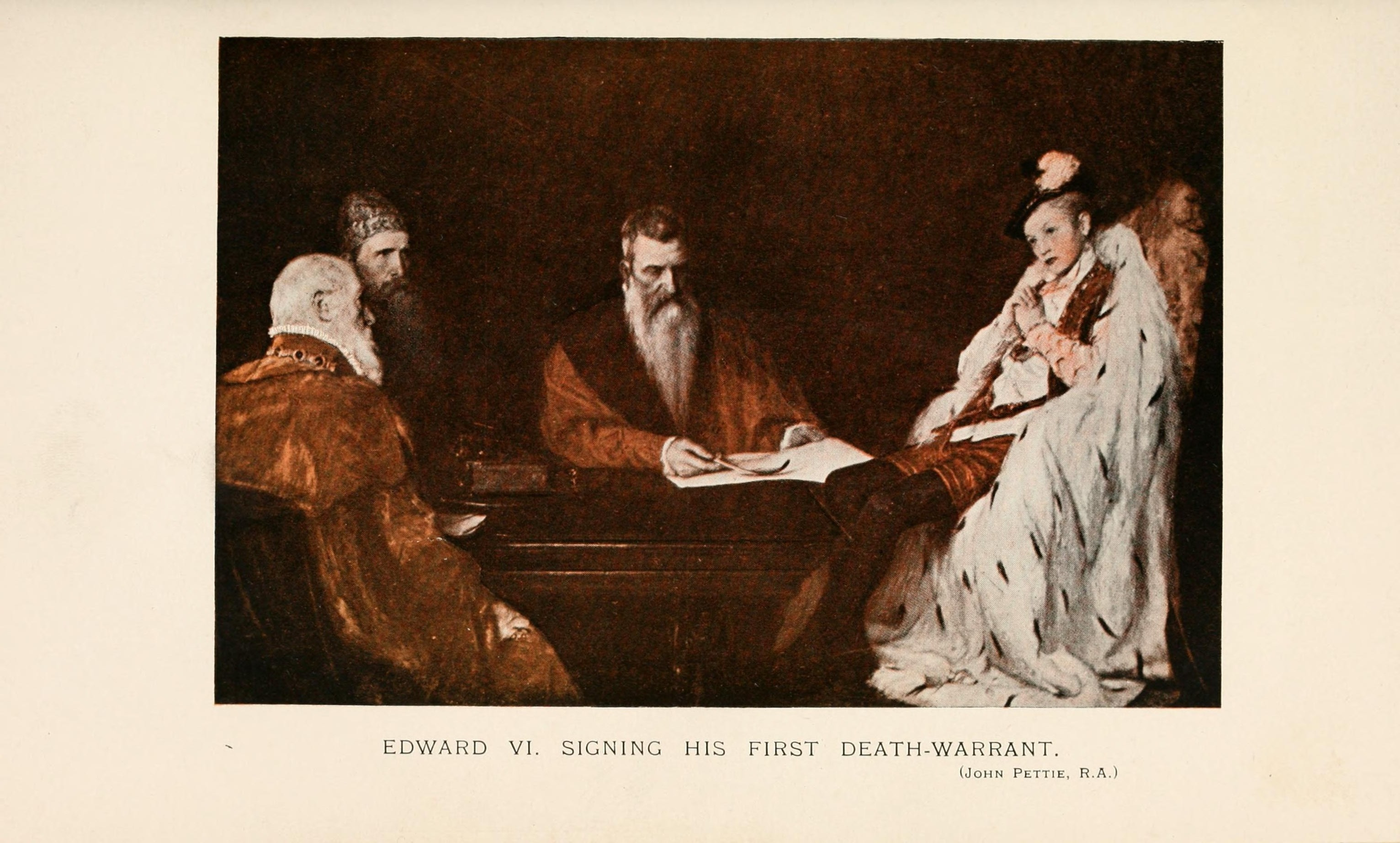 Boy kings and girl queens by Marshall, H. E. (Henrietta Elizabeth), b. 1876 Published [1914] Topics Kings and rulers, Queens SHOW MORE Publisher New York : F.A. Stokes Company Pages 502 Possible copyright status NOT_IN_COPYRIGHT Language English Call number 561967 Digitizing sponsor MSN Book contributor New York Public Library Collection newyorkpubliclibrary; americana Notes Tight margins. Full catalog record MARCXML [Open Library icon]This book has an editable web page on Open Library.